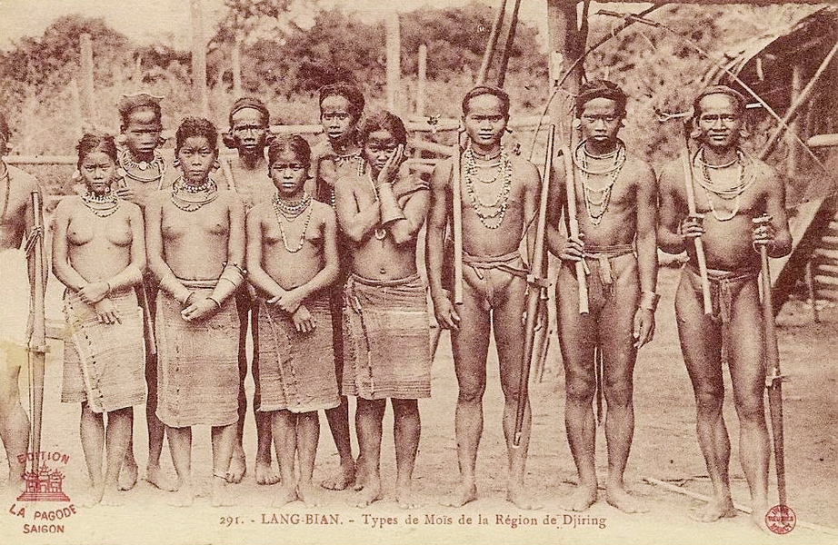 This image is, with good faith, believed to have been taken between 1905 and 1924 ( And is very likely to have been first published more than 70 years ago through A.F. Decoly.